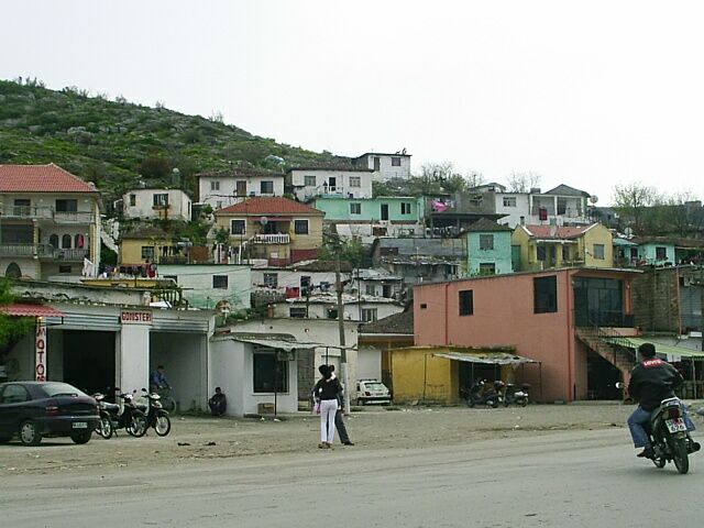 Town of Scutari, main town in northern Albania